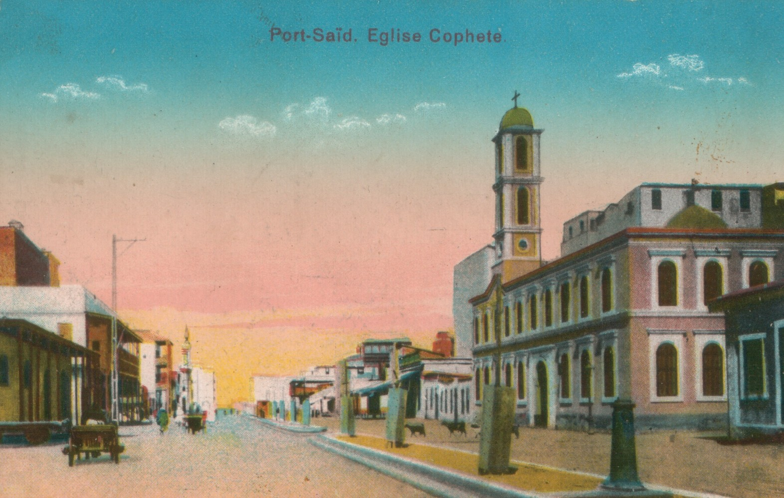 Postcard of the Coptic Church, Port Said